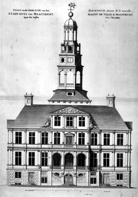 Town hall, Maastricht, the Netherlands. Engraving by P. van der Aa (1715) after a drawing by the architect Pieter Post (1666).